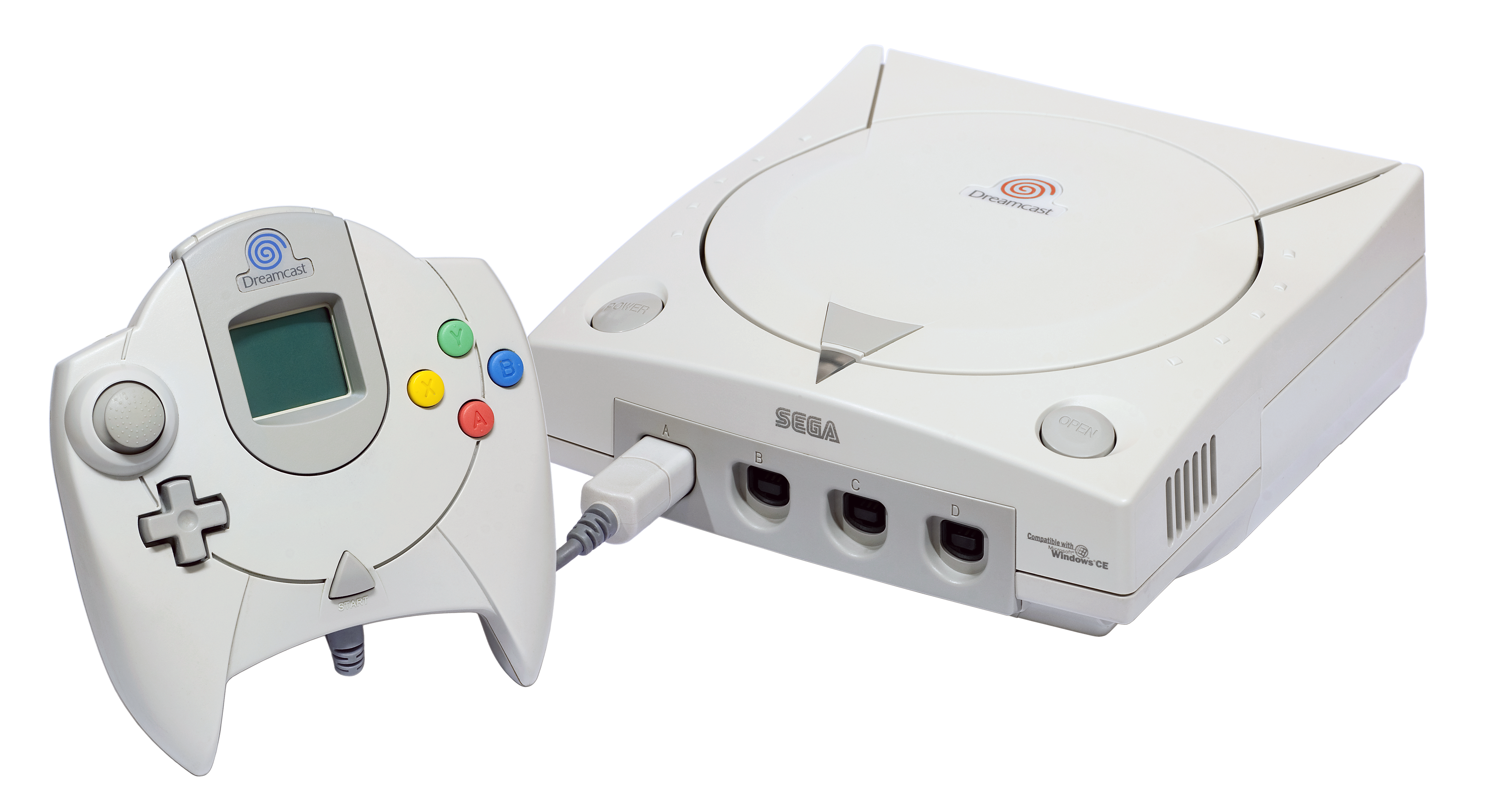 An NTSC Sega Dreamcast Console and PAL Controller with VMU.